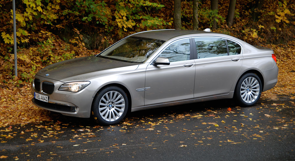 BMW 750Li photographed by Paul Tan in Dresden, Germany during the BMW 7-Series International Media Drive.